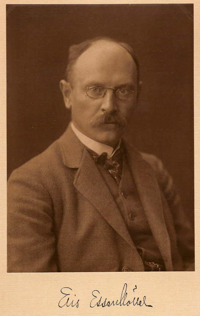 Elis Essen-Möller (1870-1956), Swedish doctor and professor at Lund University.